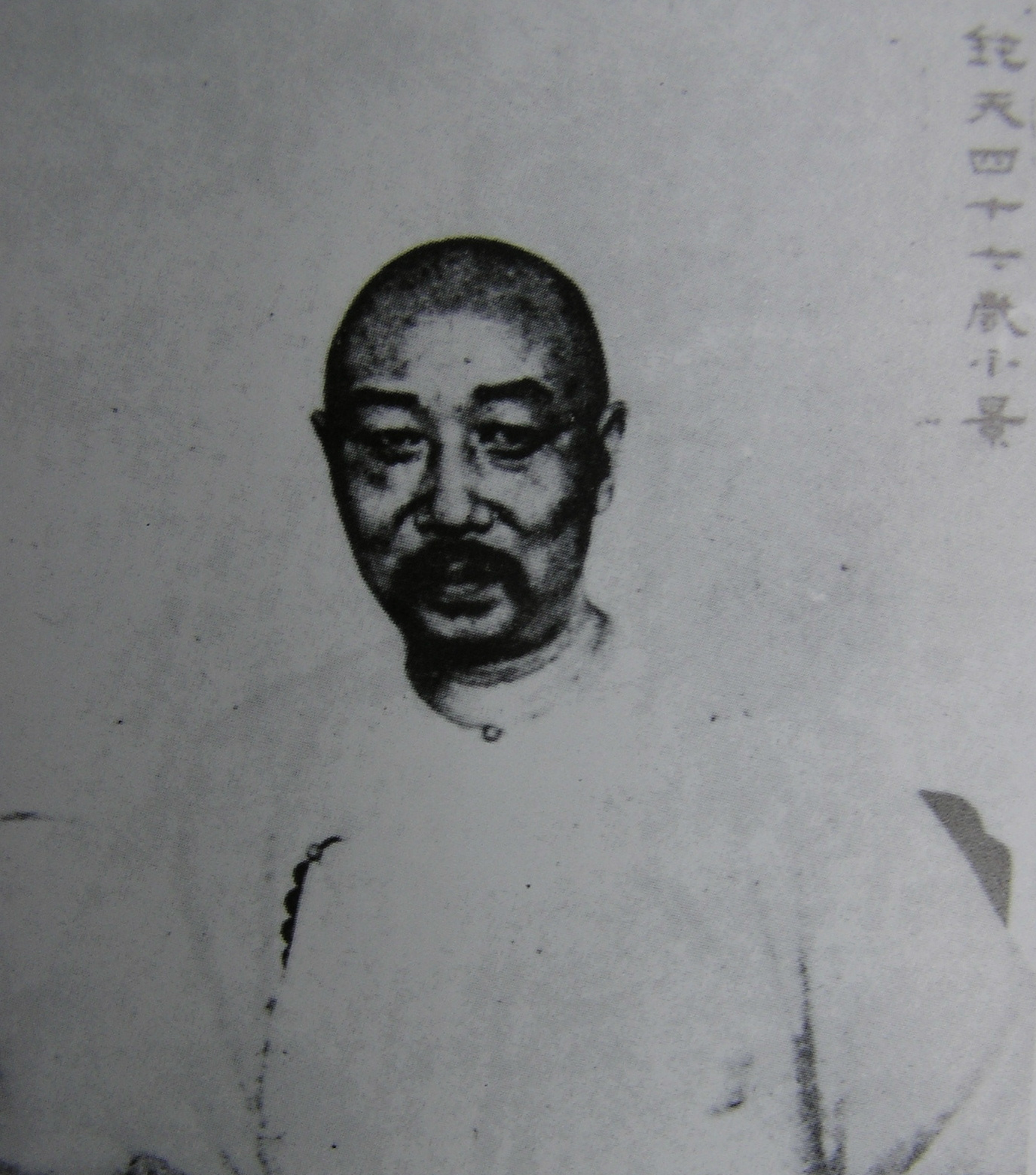 Hu Chuan, a government official in the late Qing, he is also father of renowned scholar Hu Shih.